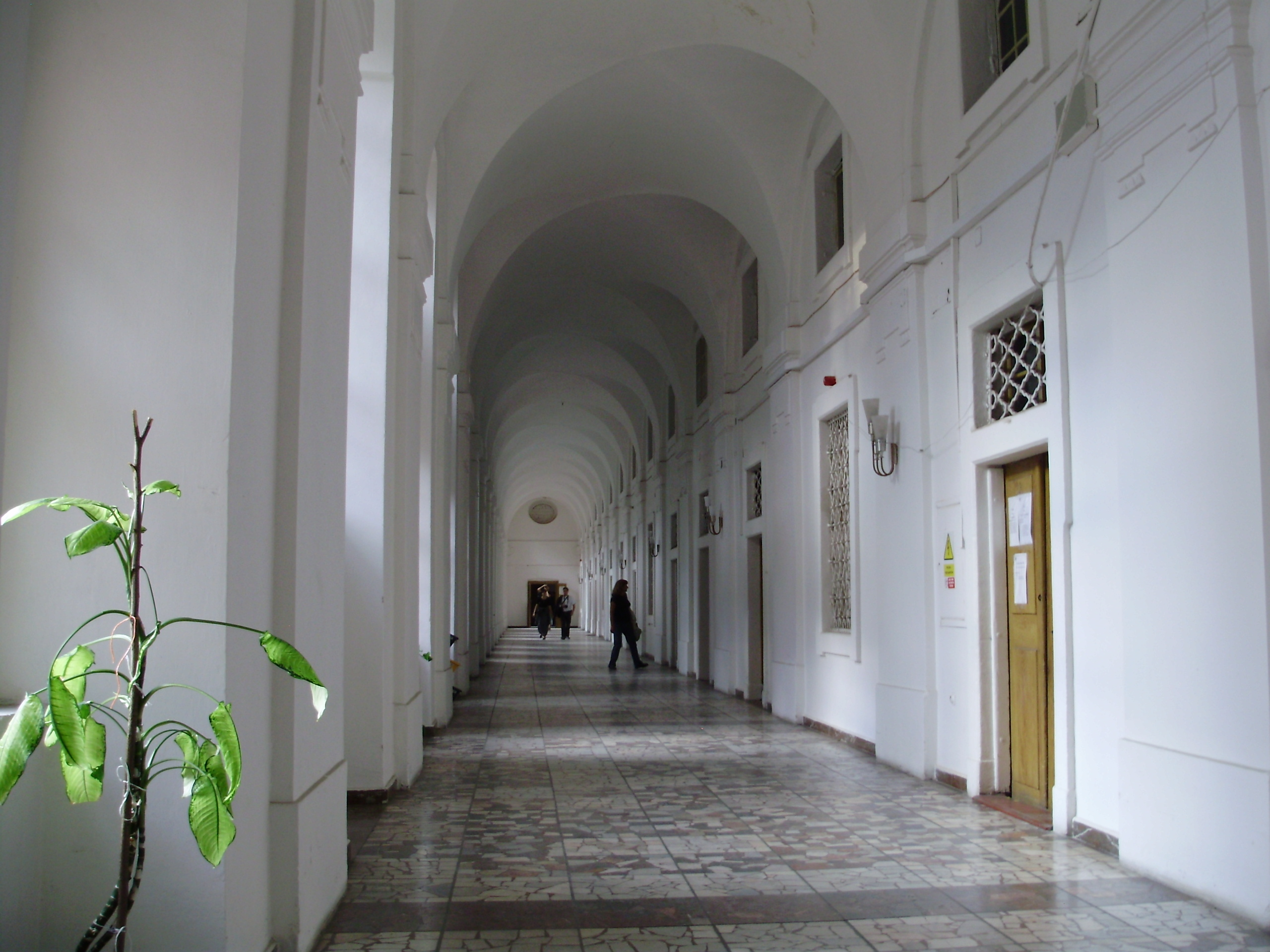 Invalidovna (French "hôtel des invalides") - building from 1731-37 was built as a dormitory for war invalids (veterans) by Kilián Ignác Dienzenhofer. Fulfilled was only a ninth of a originally designed work. Prague, Czech Republic, September 12, 2009